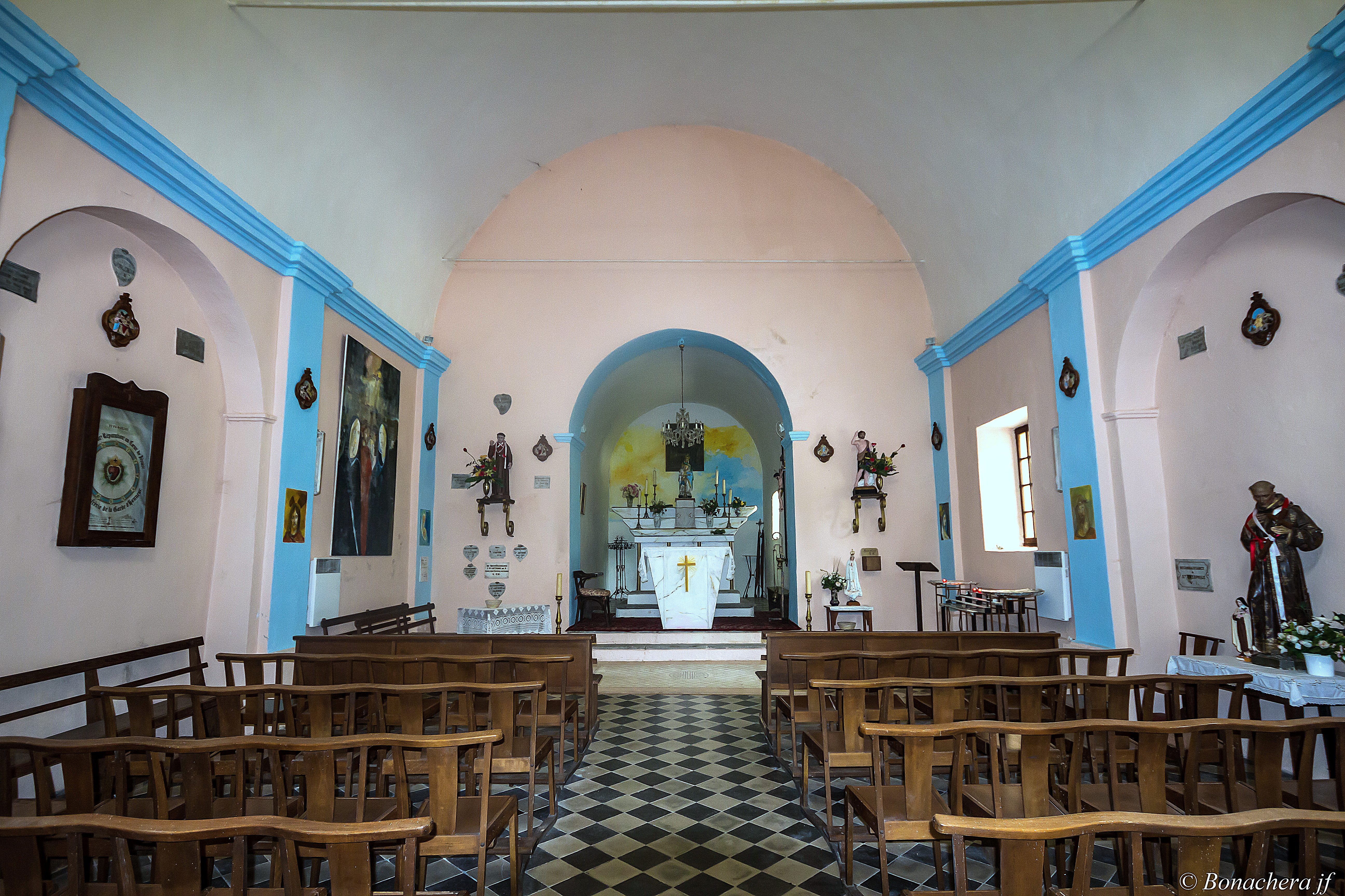 Intérieur de l'église de Pietrapola, avec des fresques et peintures du peintre Chisa datant de mai 2009